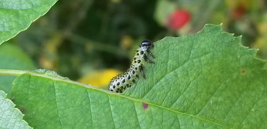 Sawfly larva, Nematus ribesii, feeding on leaf